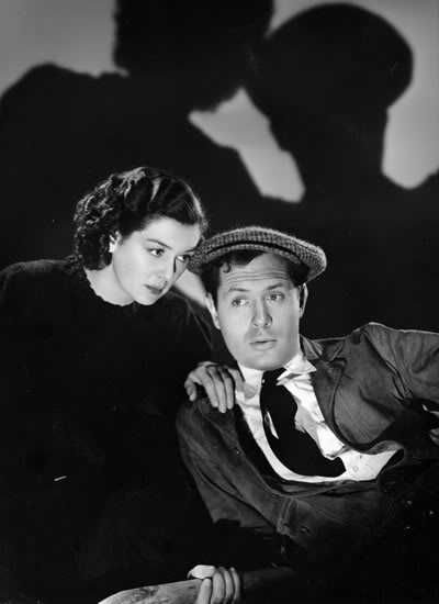 Promotional still from the 1937 film Night Must Fall, published on page 4 of National Board of Review Magazine